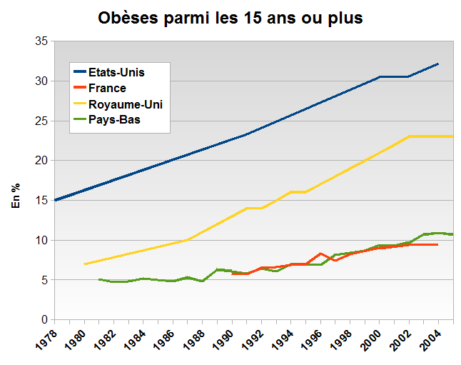 Obese population as a percent of population aged 15 or more. ODCE data.